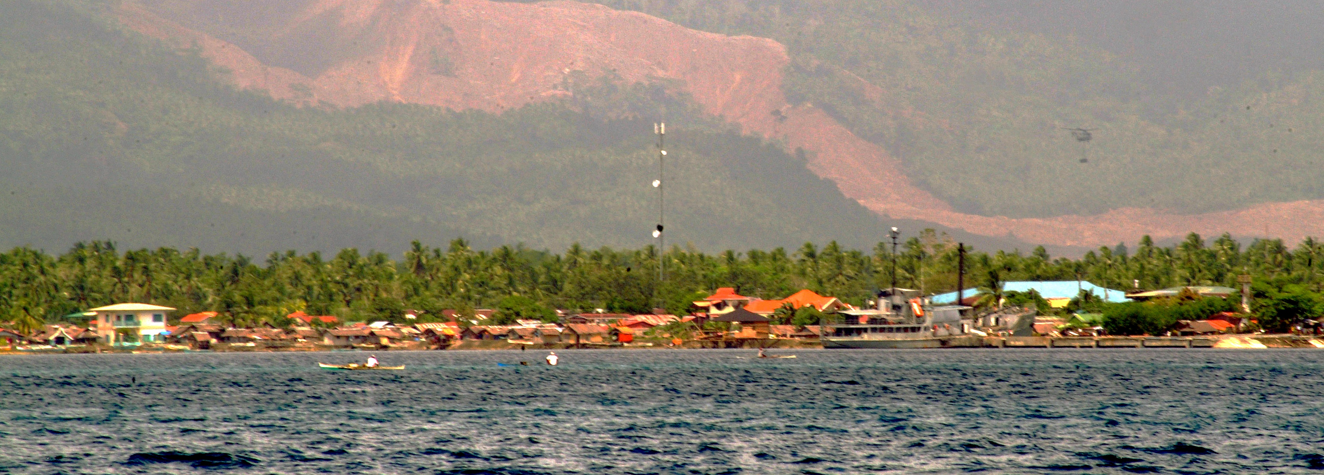 Skyline of Saint Bernard, Southern Leyte, Philippines